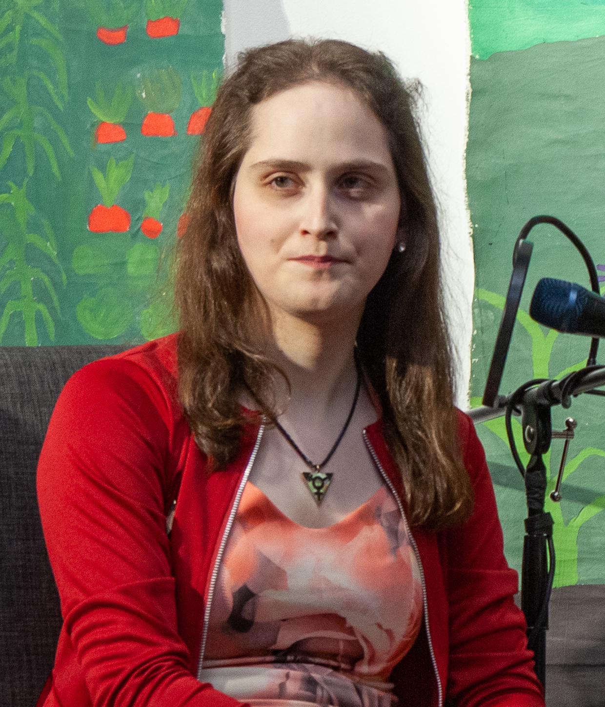 Abby Stein is interviewed by Randi Reed at the California Institute of Integral Studies (CIIS).